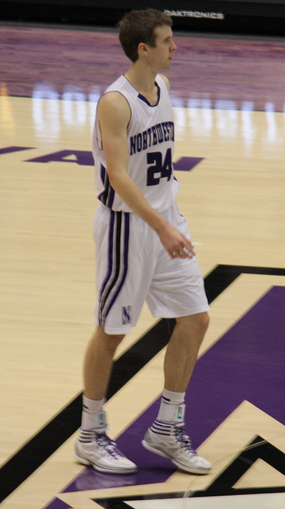 John Shurna at Welsh-Ryan Arena in Evanston, Illinois on January 4, 2012.